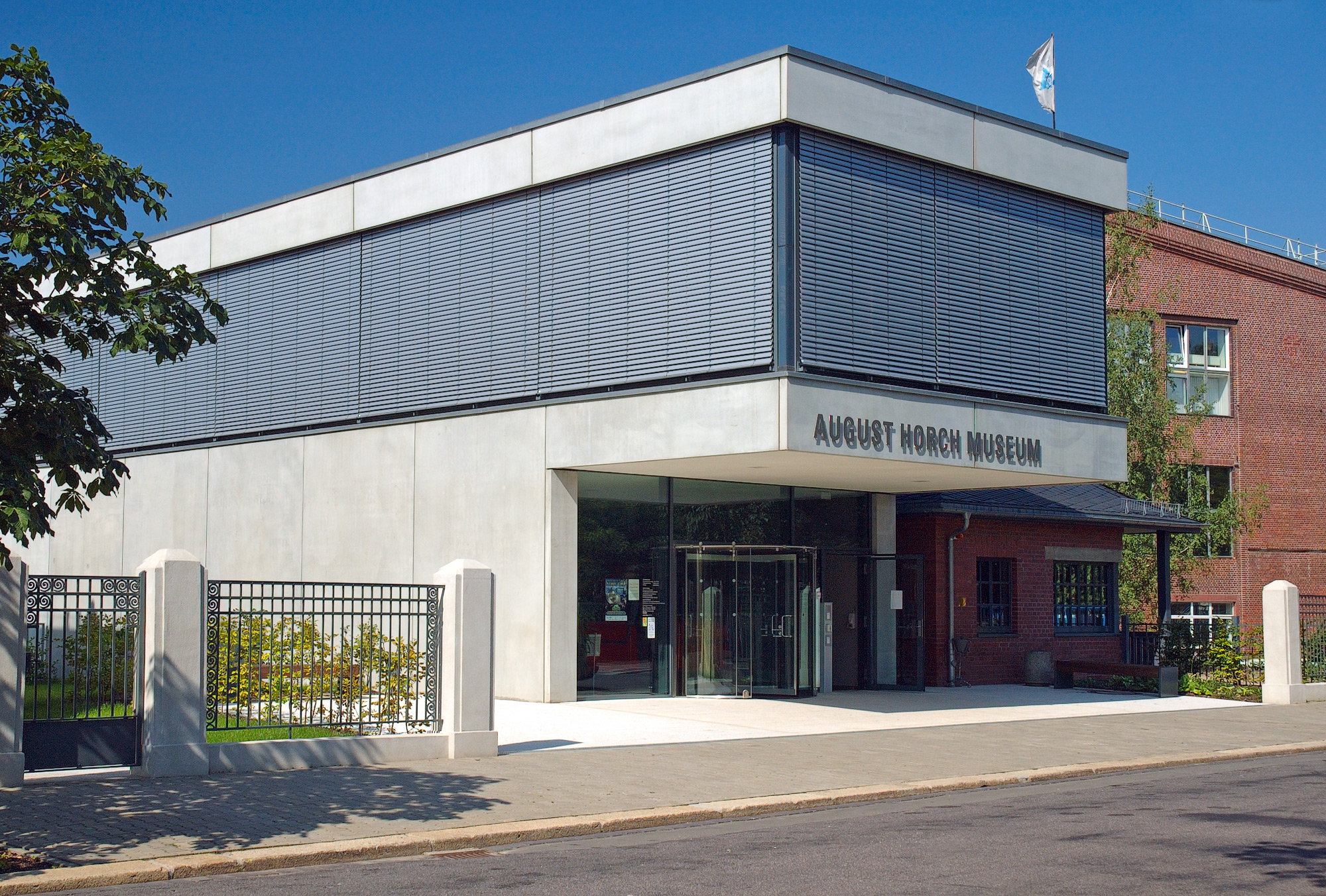 This image shows the August Horch museum in Zwickau (Saxony, Germany).